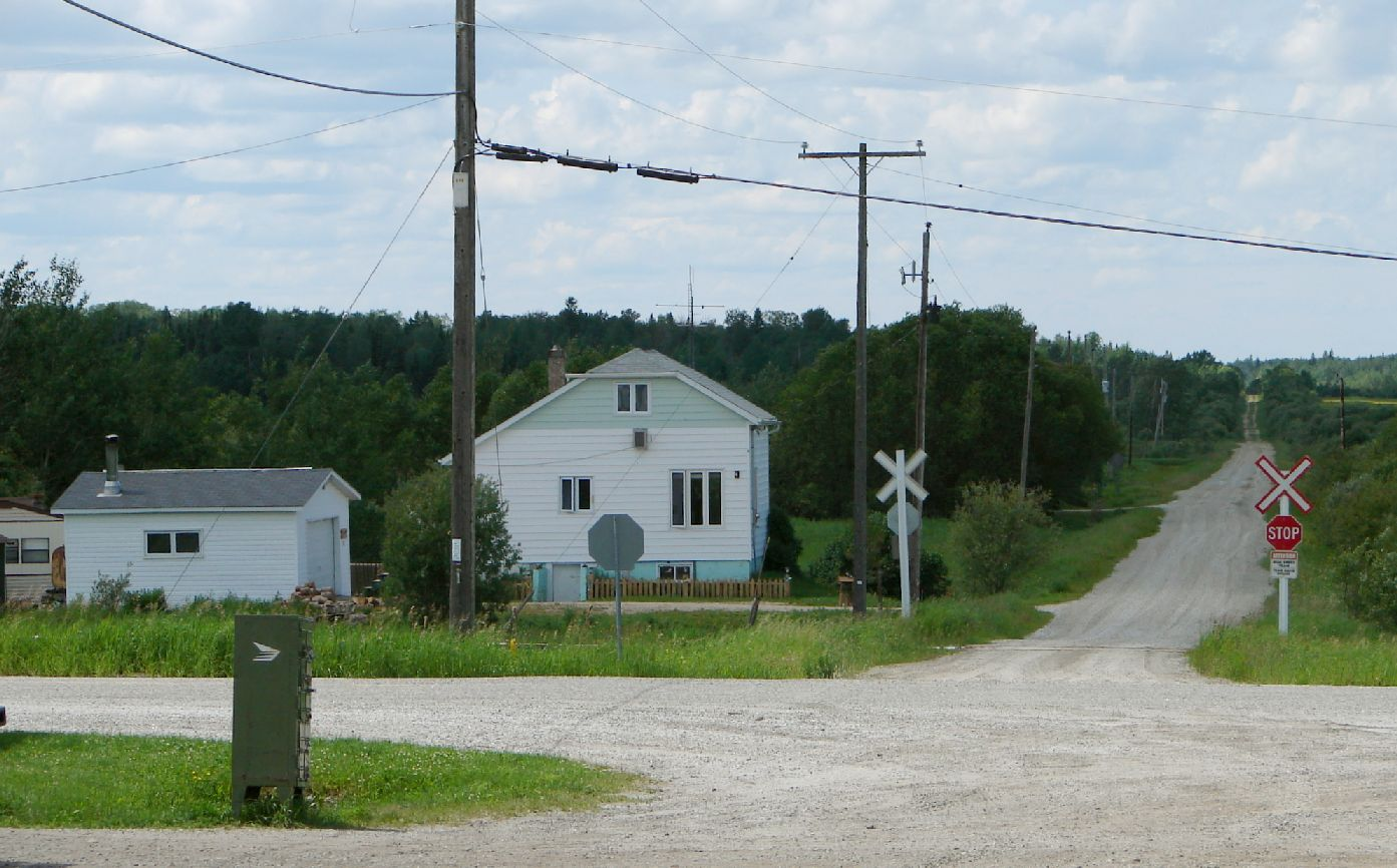 Coppell (near Hearst), Ontario, Canada